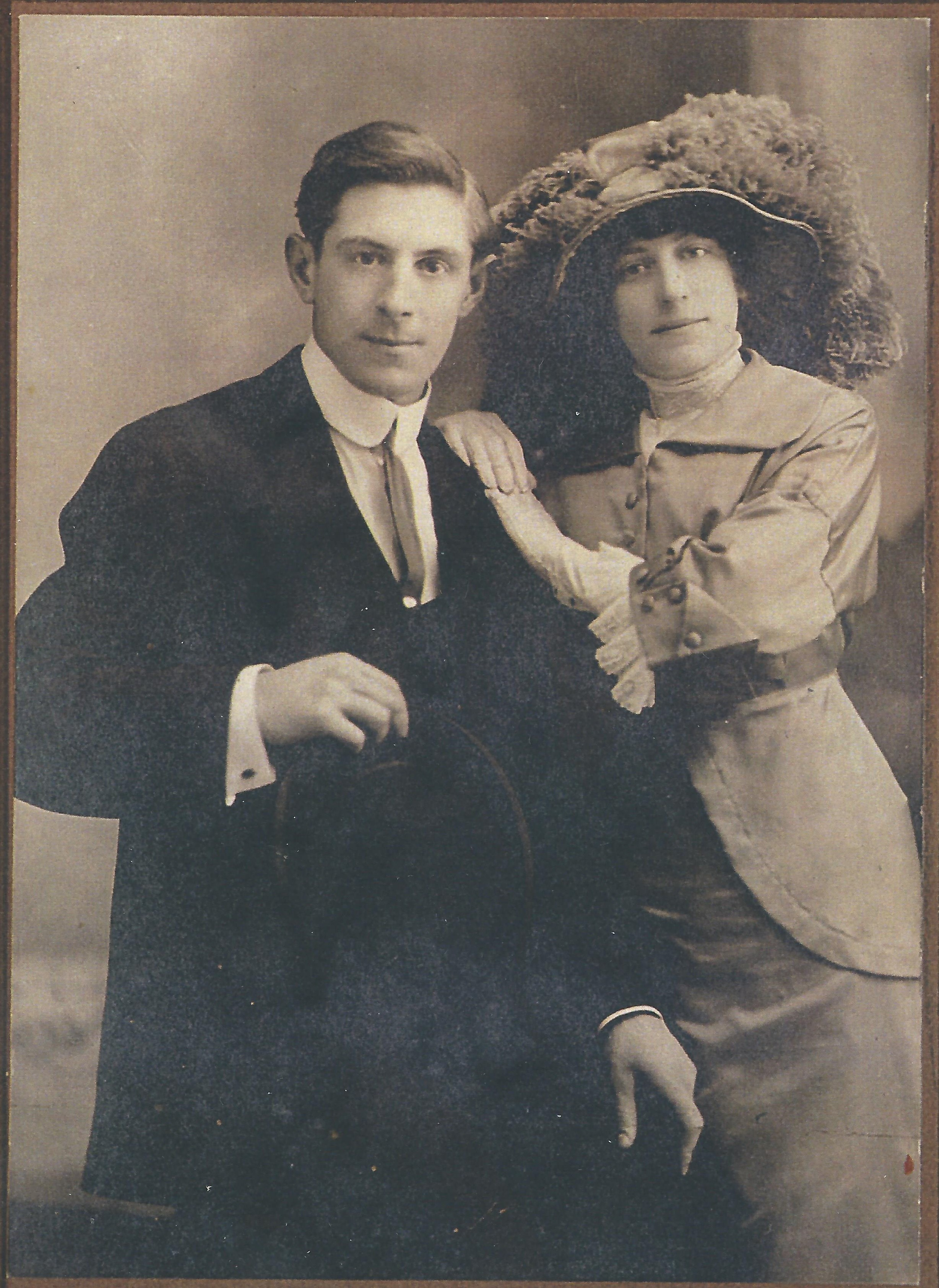 Parents of Alphonse Lespérance in Montréal.